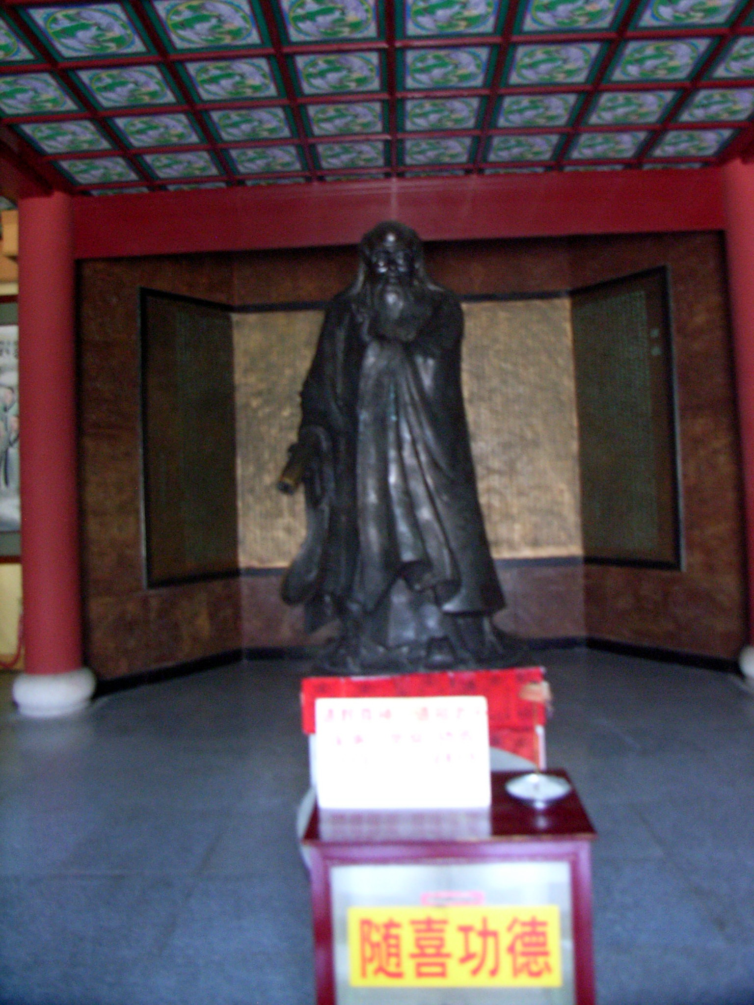 Laotze in Nanyue Damiao temple, Héng shān, Hunan province, China.